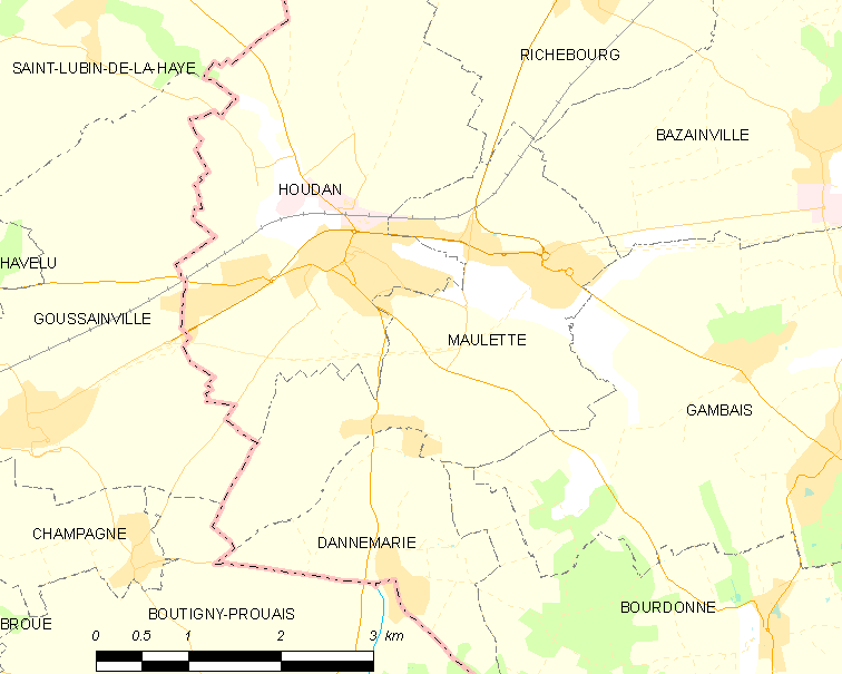 Map of French municipality Maulette